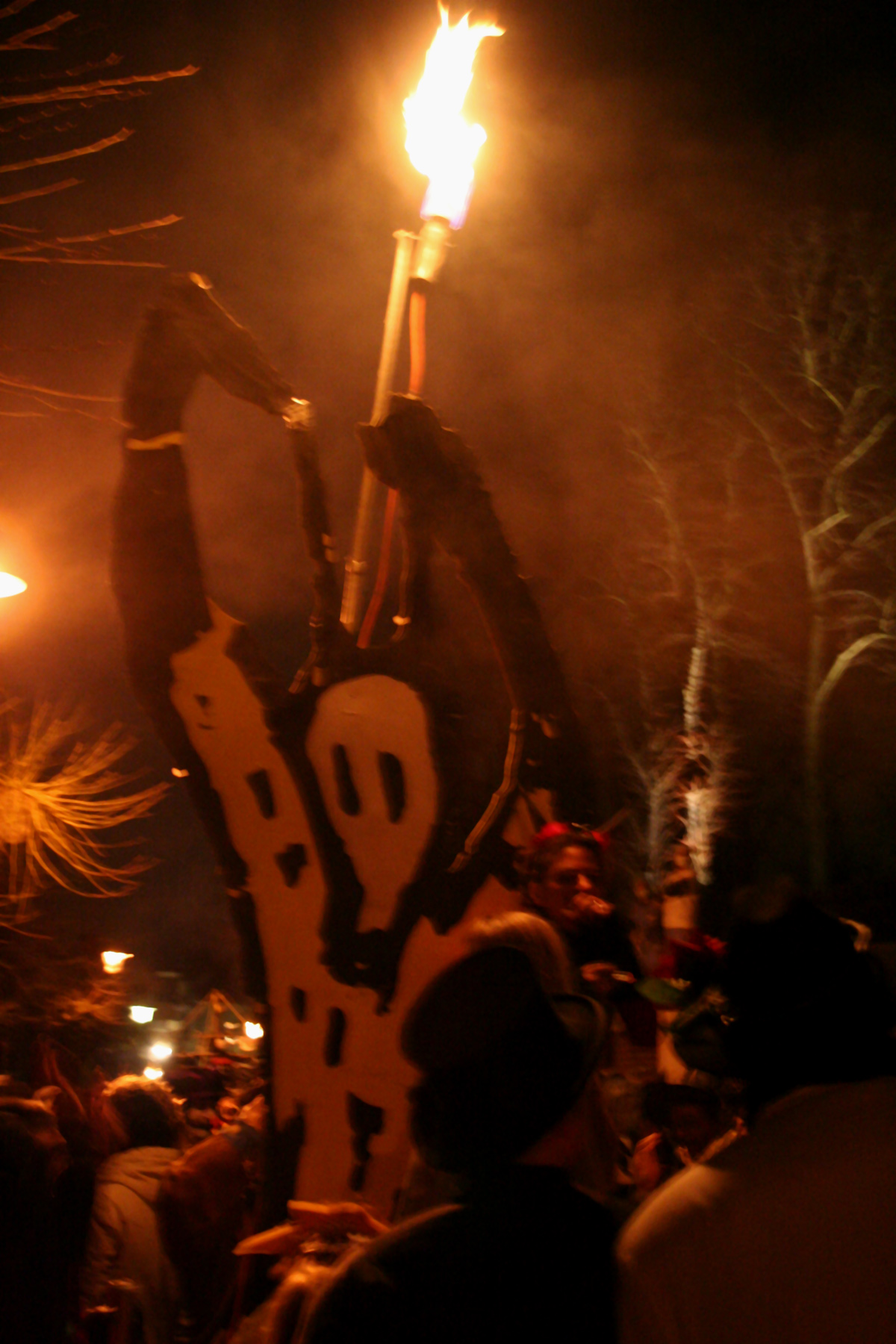 At the Geisterzug 2009 in Rodenirchen, Cologne, Germany.